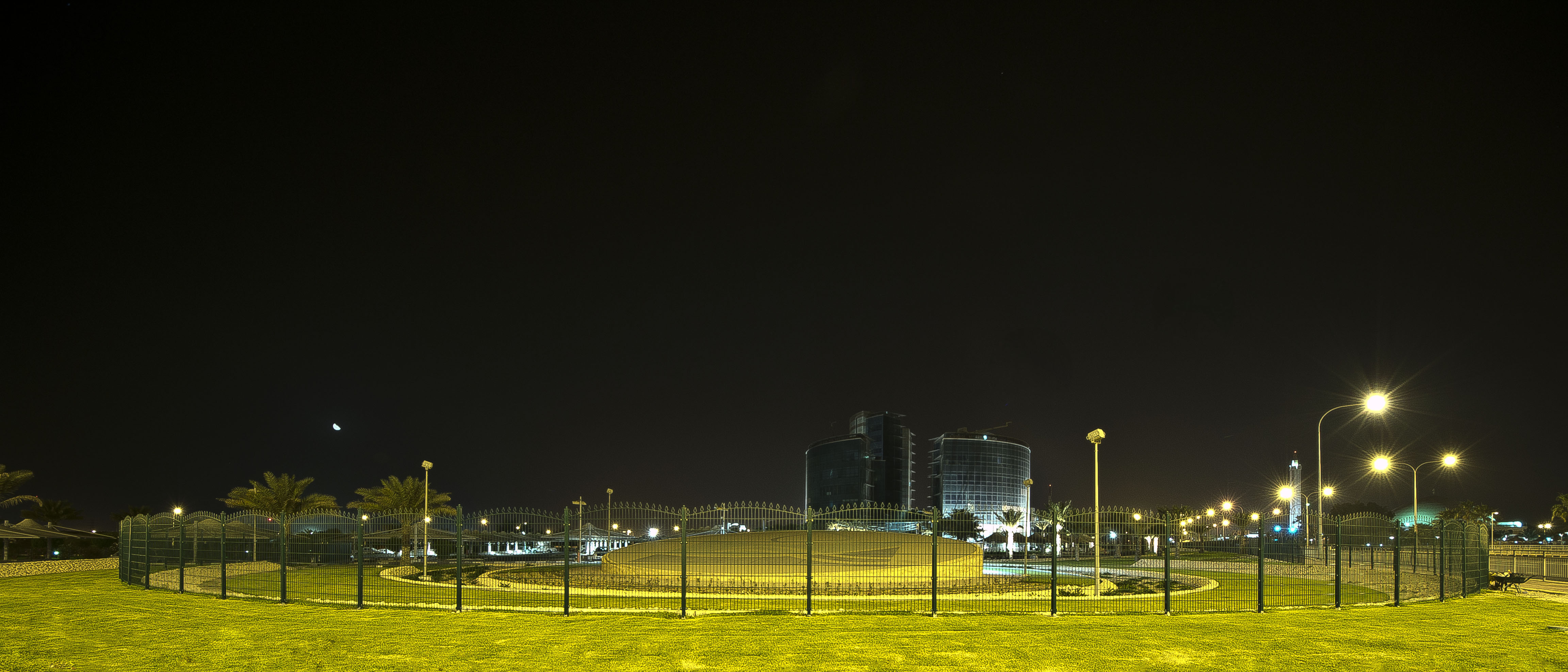 Qatar petroleum office in Mesaieed